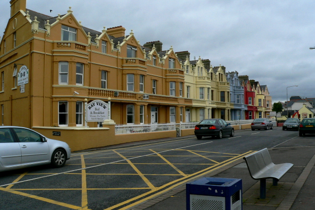 Bundoran - SW end Colourful row of B&Bs on right side of N15, entering Bundoran city centre from the SW. These B&Bs face the Atlantic Ocean.